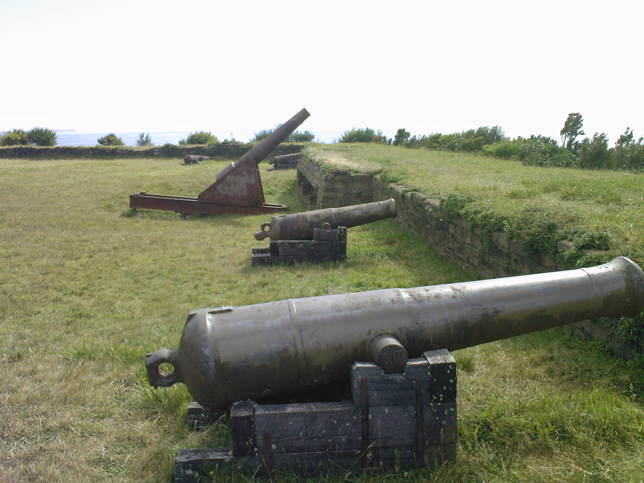 Cañones en el fuerte Agüi, Ancud, Chile. This is a photo of a national monument in Chile: 702